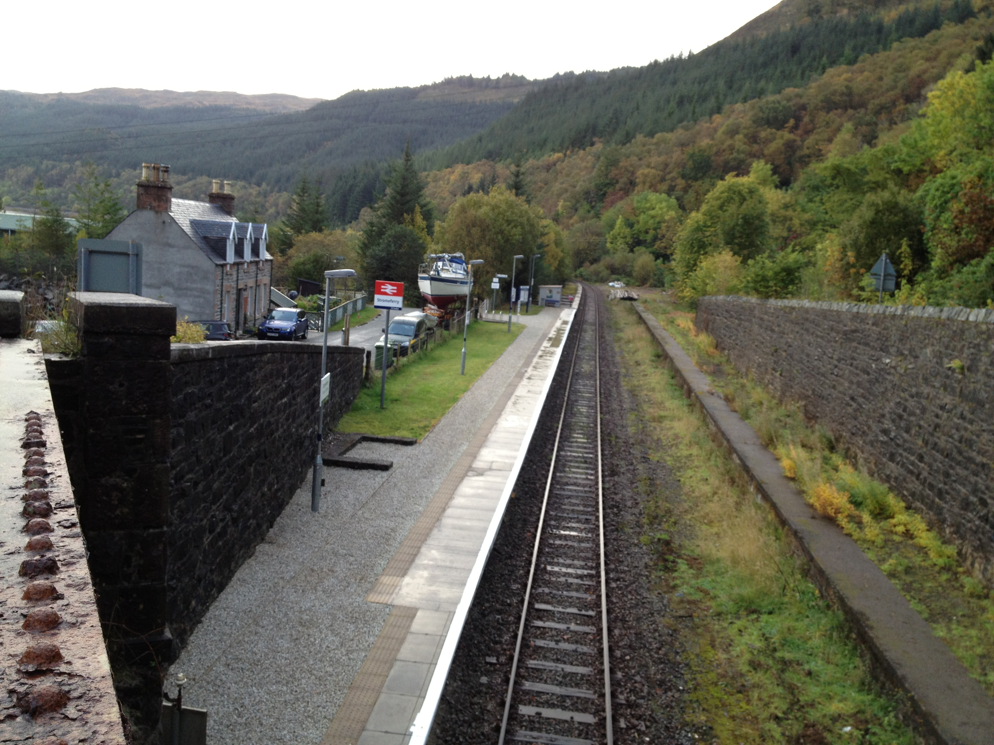 Stromeferry railway station looking east from the railway overpass.